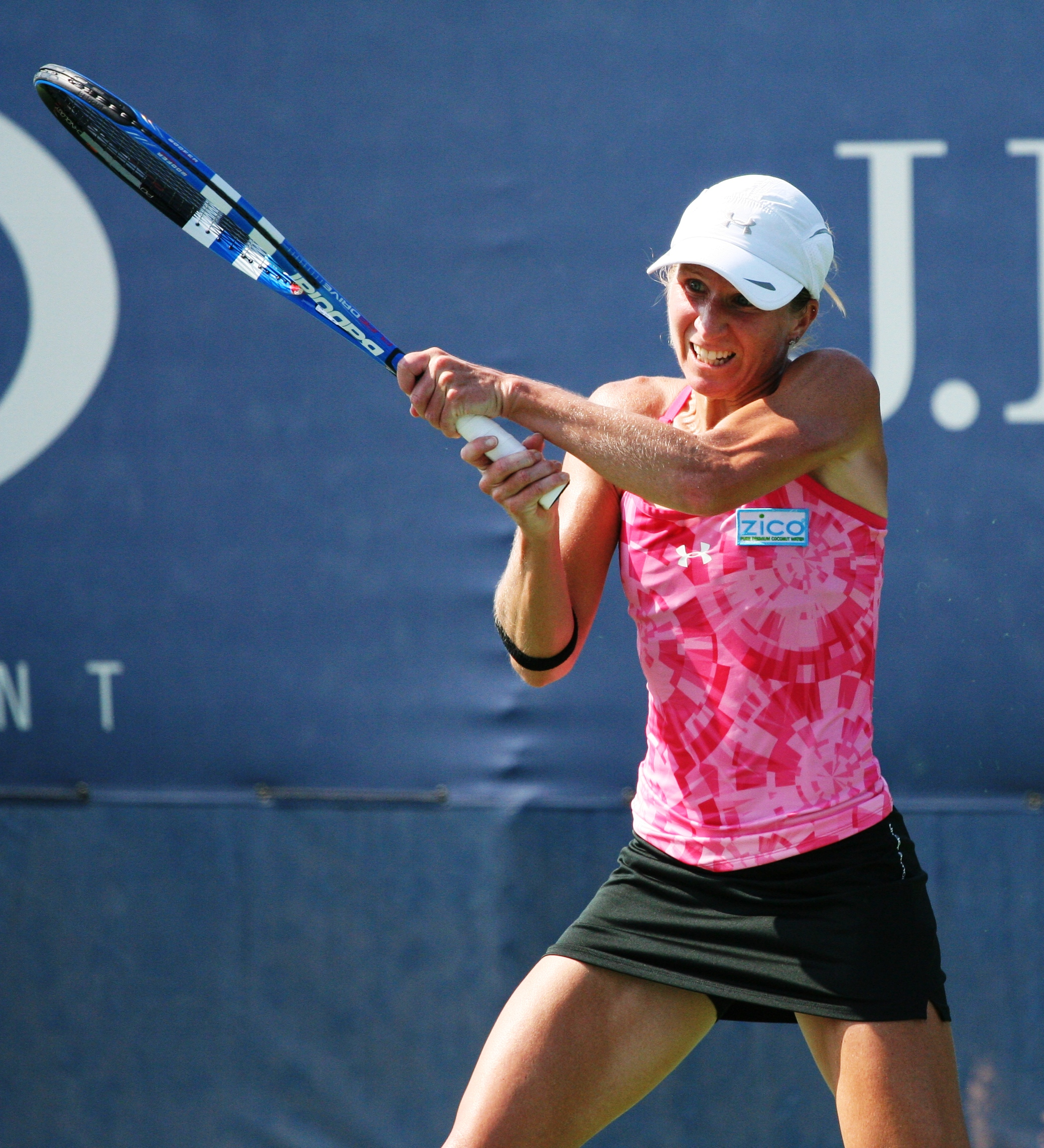 U.S. Open Tuesday, Aug. 31, 2010